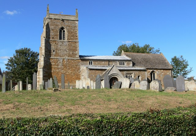 St Nicholas' parish church, Bringhurst, Leicestershire, seen from the south